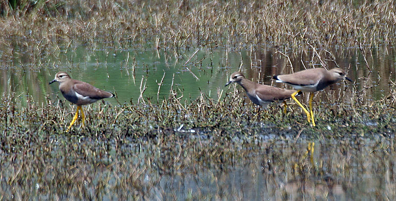 White-tailed Lapwing (Vanellus leucurus) at Sultanpur National Park in Gurgaon District of Haryana, India.